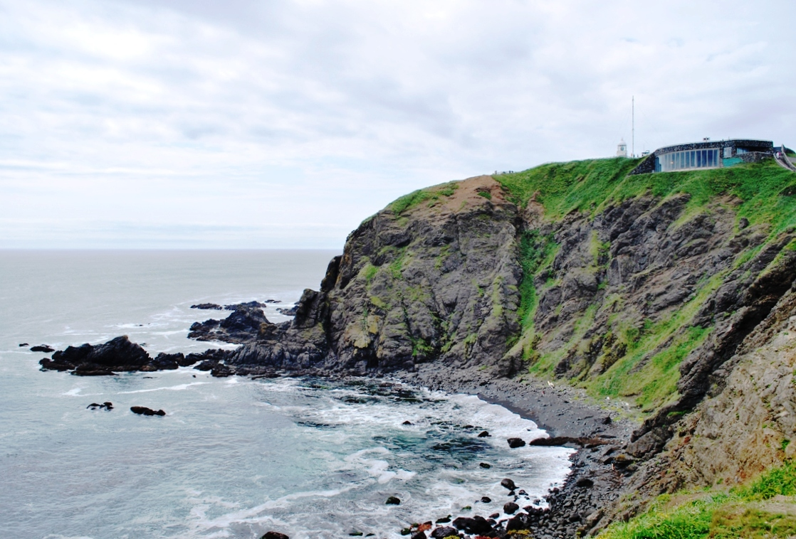 Erimo promontory